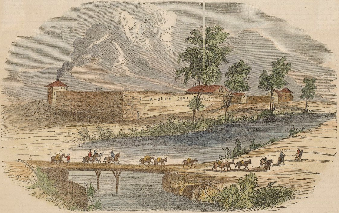 Buildings of Sutter's Fort behind high walls; train of pack mules, horses, and people crossing small bridge over river in foreground. Original caption: View of Sutter's Fort, near Sacramento City, California.